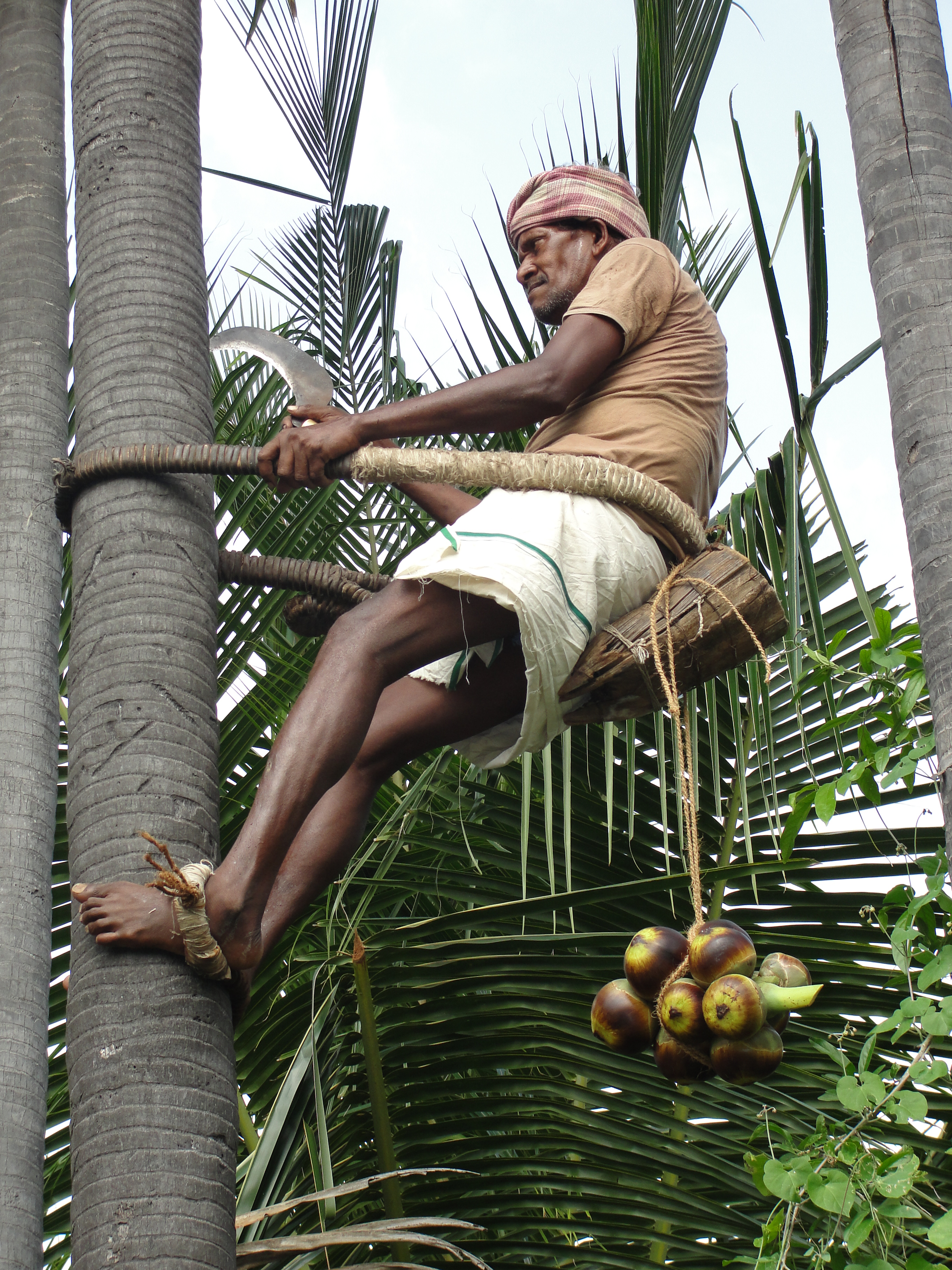 This photo depicting Climbing of a man on Palmyra Tree to collect Young palmyra fruit. This profession is one of the traditional and ancient culture of Tamils.